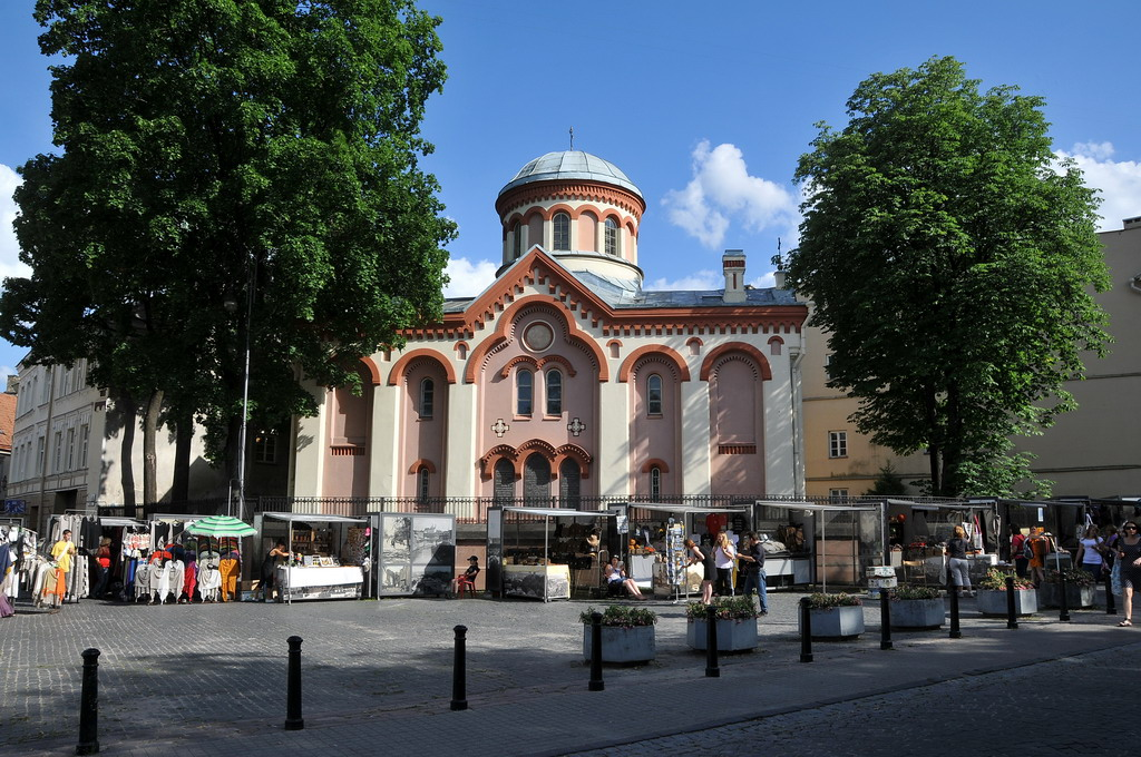 Built in 1345, this was the first Russian Orthodox church in Lithuania founded by Duchess Maria Jaroslavna, the Russian wife of Algirdas, the Grand Duke of Lithuania. In the course of its history, the church was twice ravaged by fire. In Soviet times the building was turned into a museum but since 1991 it's been used for worship again. Bron